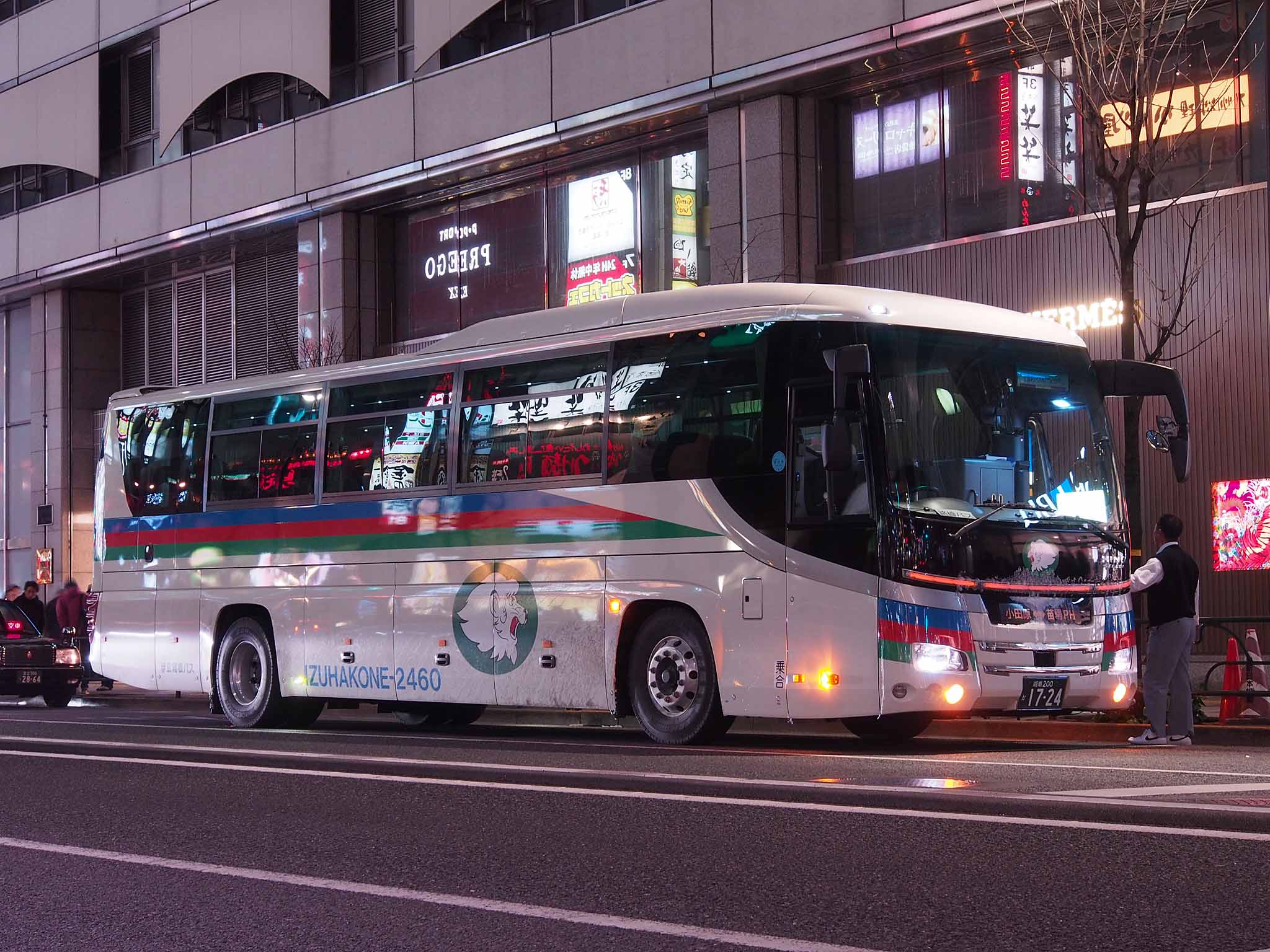 Izu Hakone Bus "Naeba White Show Shuttle", arrived at Ikebukuro Station. Model: Hino Selega License plate: KNN200KA1724